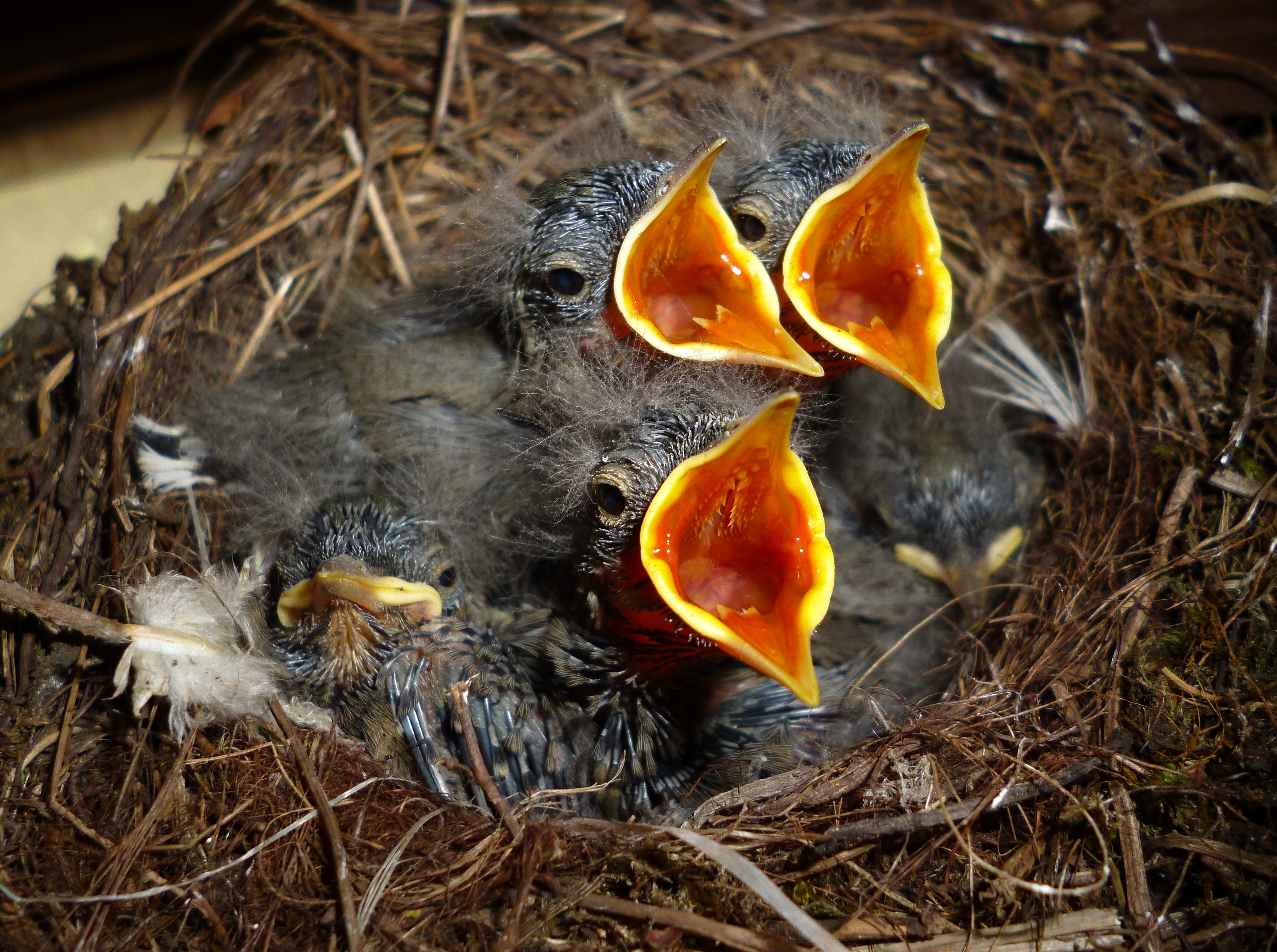 Juveniles of White wagtail (Motacilla alba)